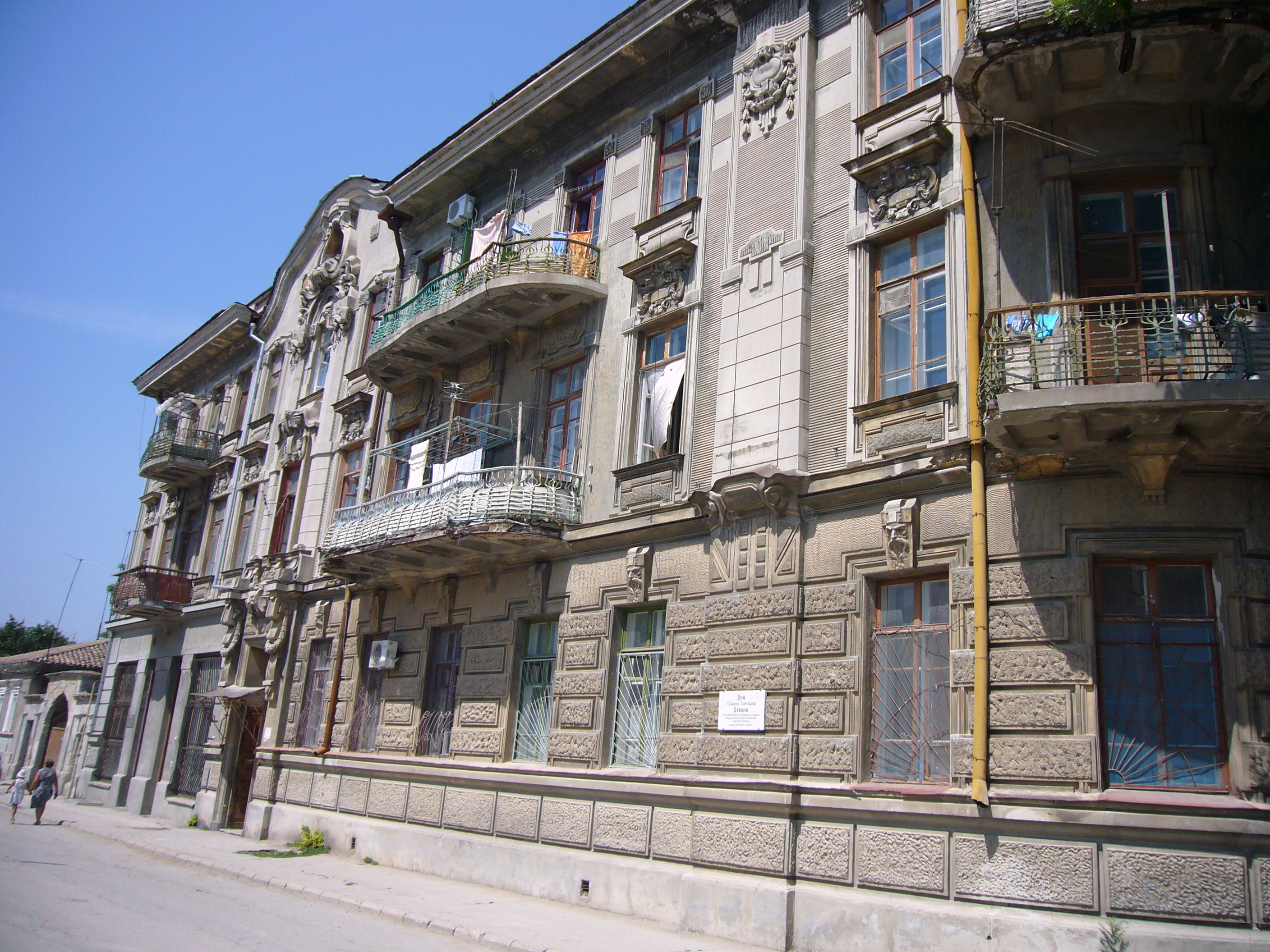 House of Semyon Duvan (built in 1908) in Eupatoria, Crimea, Ukraine